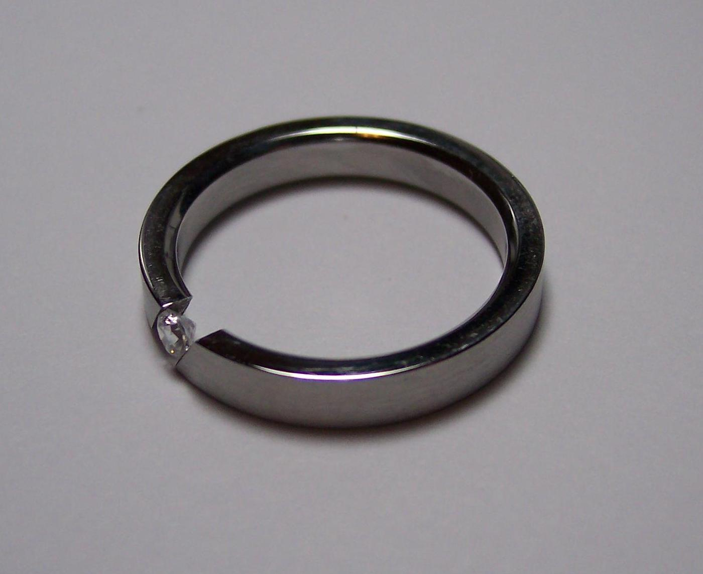 0.1 ct brilliant cut diamond tension set titanium engagement band.